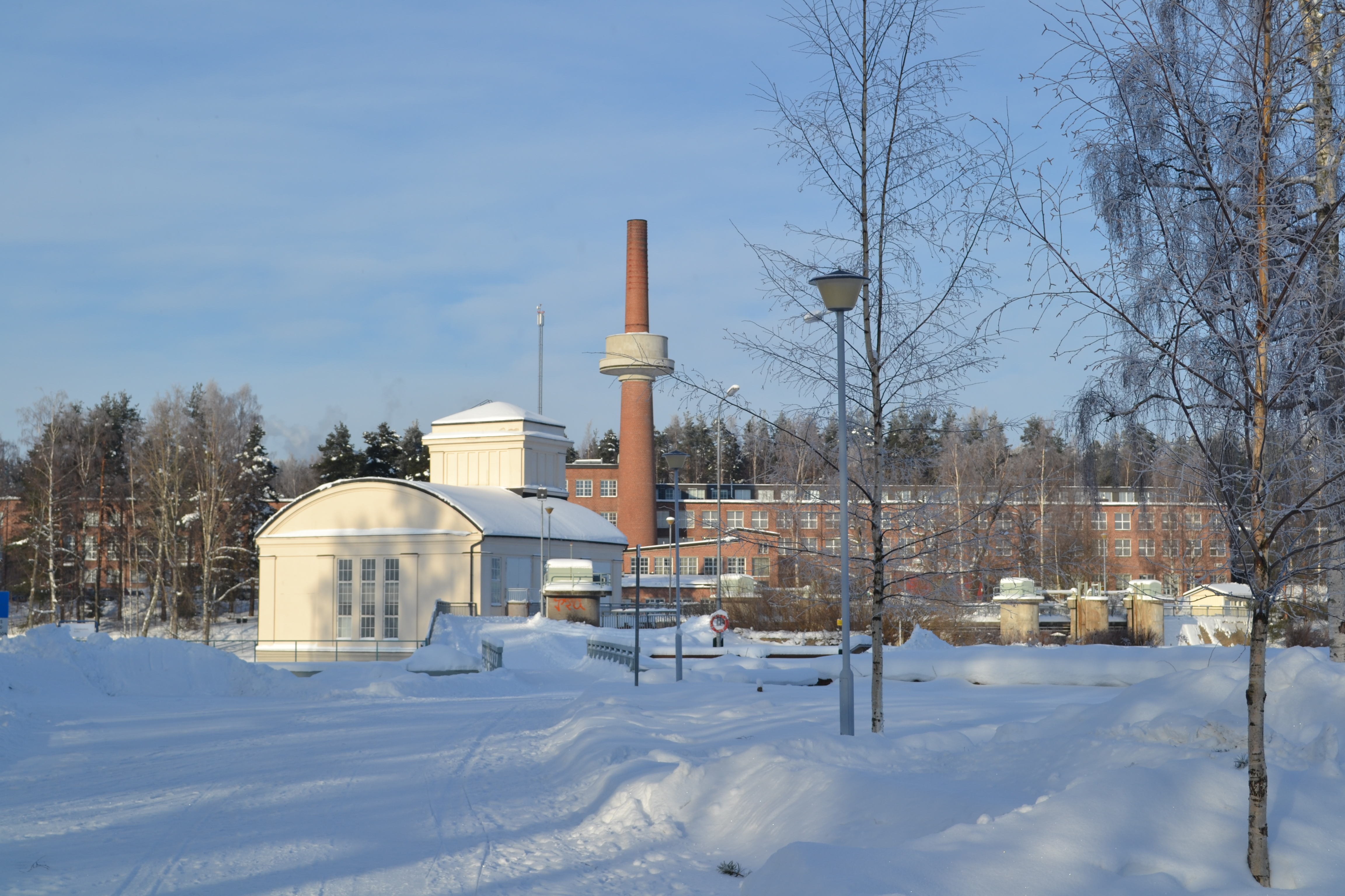 Vaajakoski old power plant and Vaajakoski Industrial House, the former nail factory of Vaajakoski